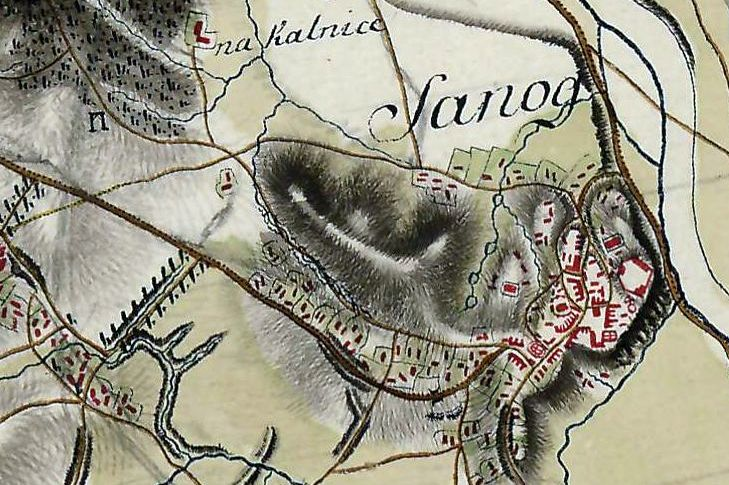 Sanoker Ansichten um 1783